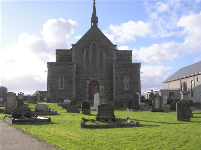 First Kilrea Presbyterian Church It is located on the main street of the village.